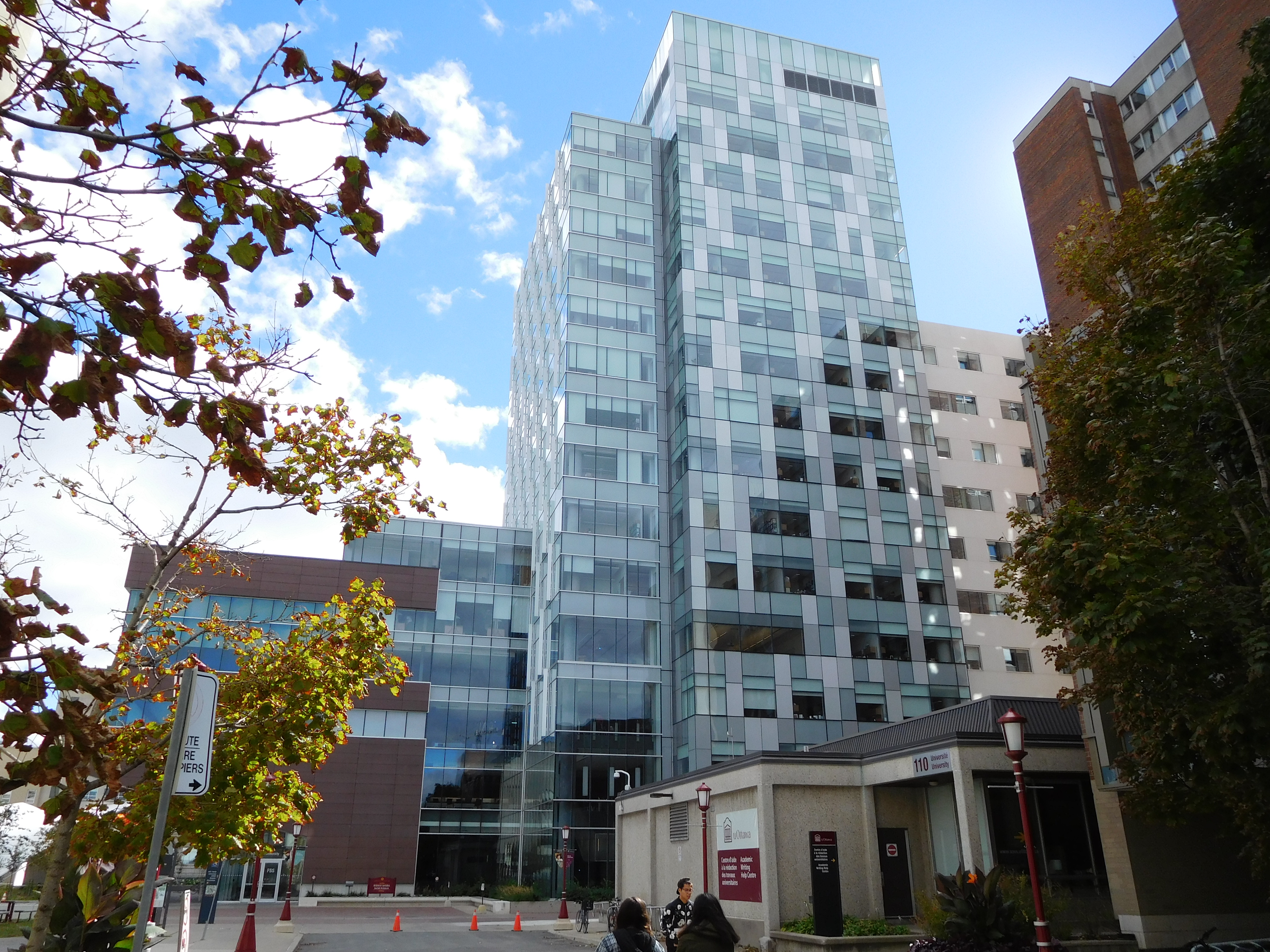 Social Sciences building, 120 University uottawa.ca